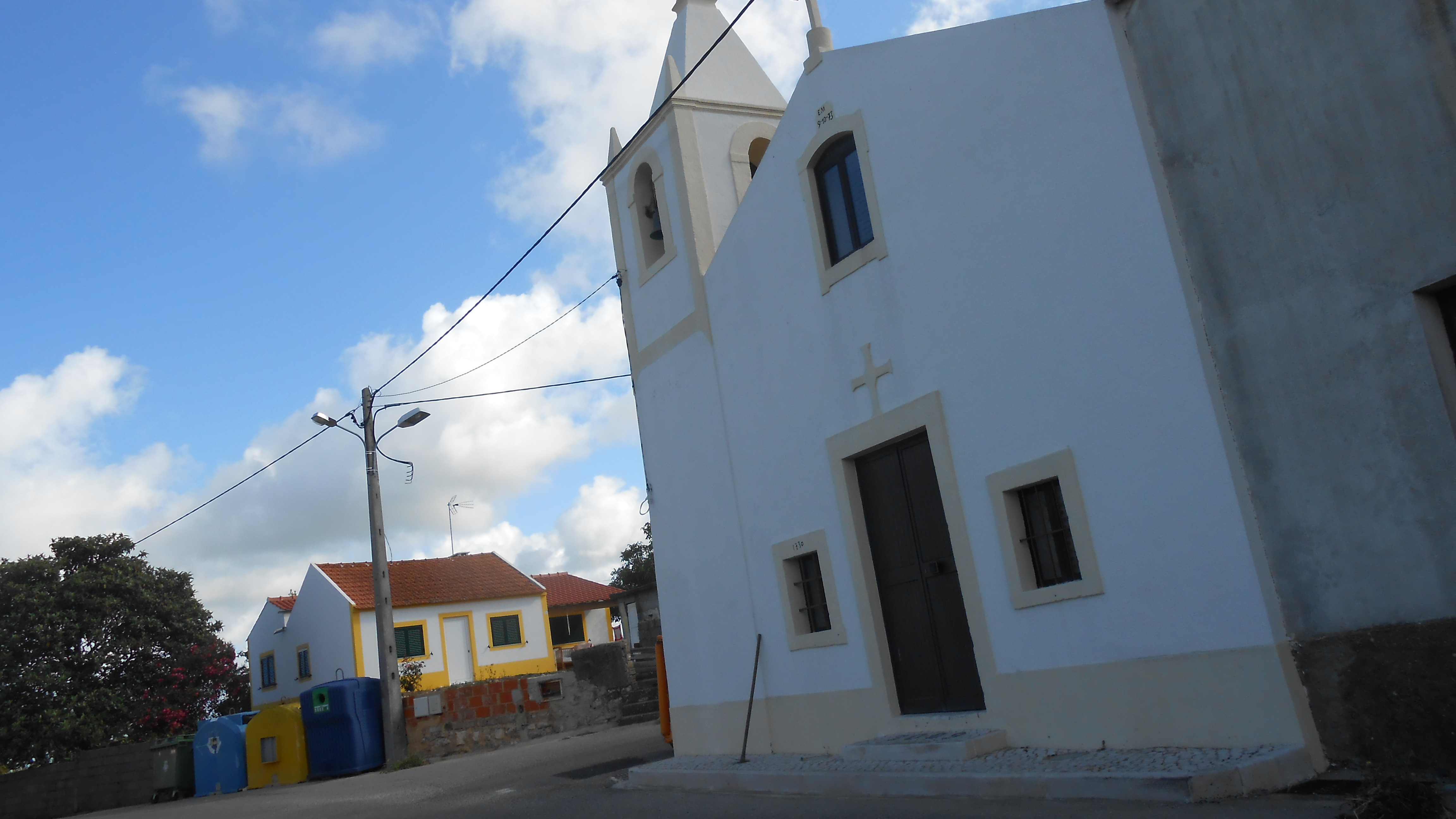 The chapel of Carvalhal da Azoia, a small village in the Samuel parish, Soure, Portugal